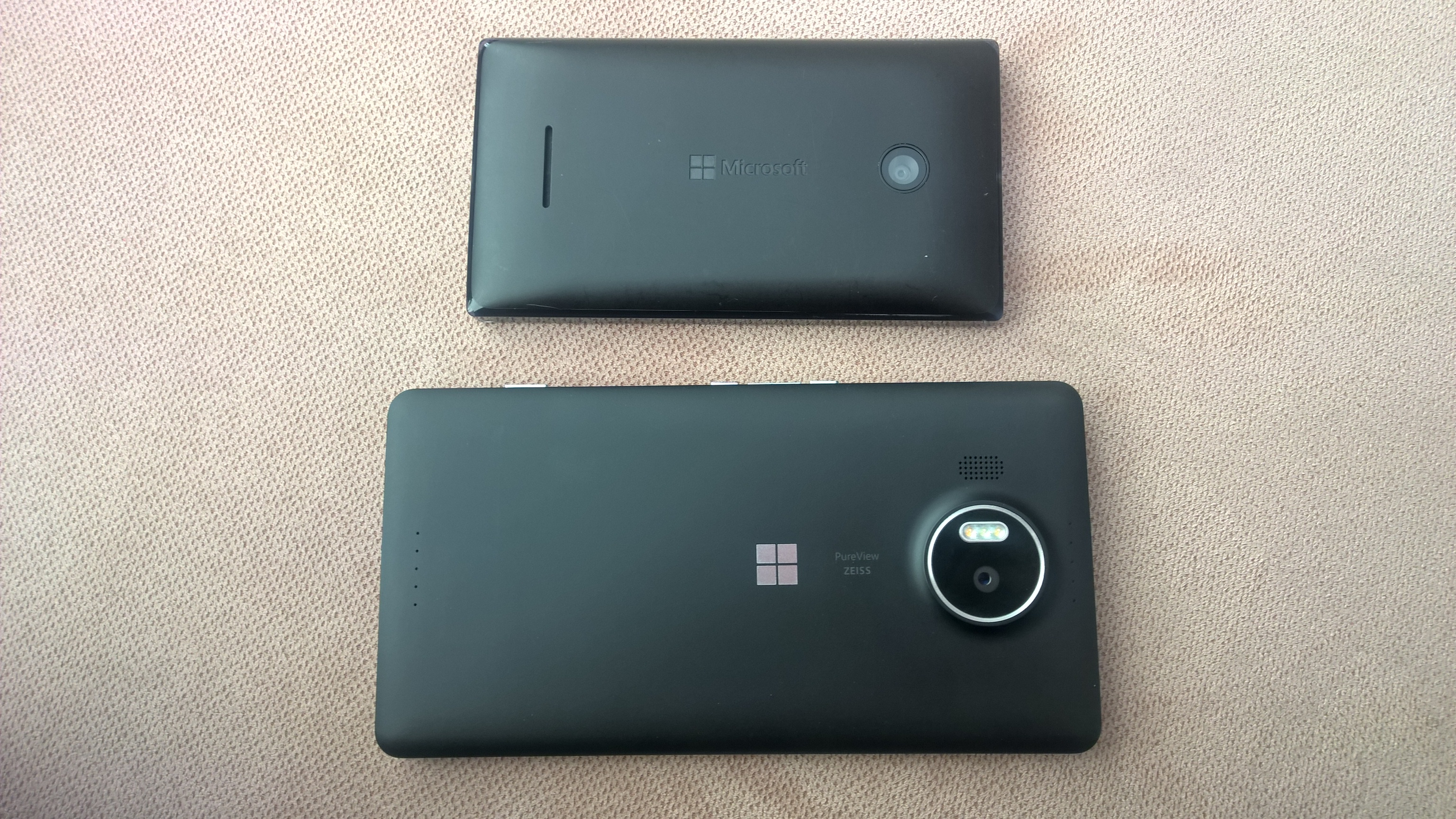 The size of a Microsoft Lumia 532 Vs. a Microsoft Lumia 950 XL